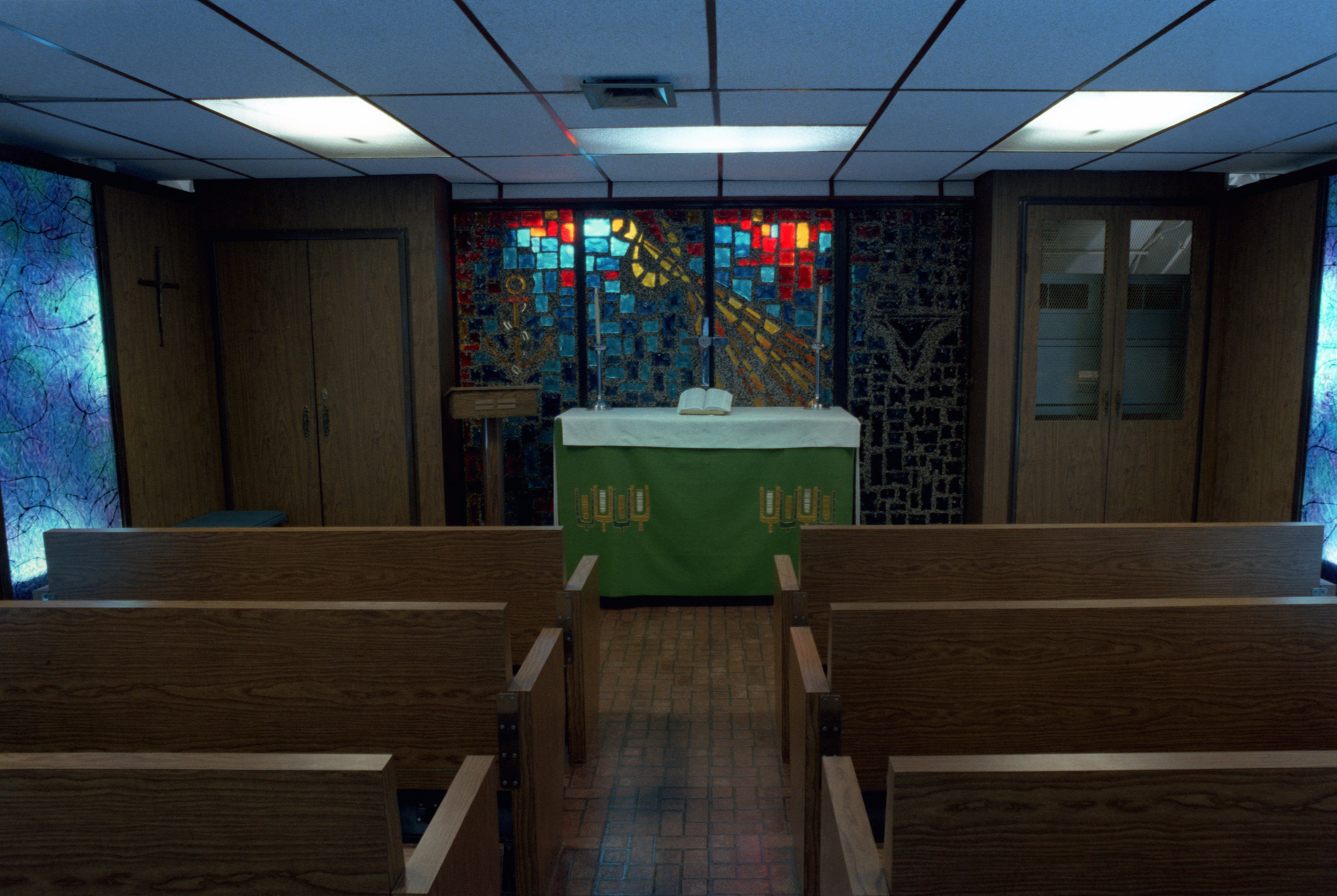 The chapel aboard the nuclear-powered aircraft carrier USS ENTERPRISE (CVN 65).